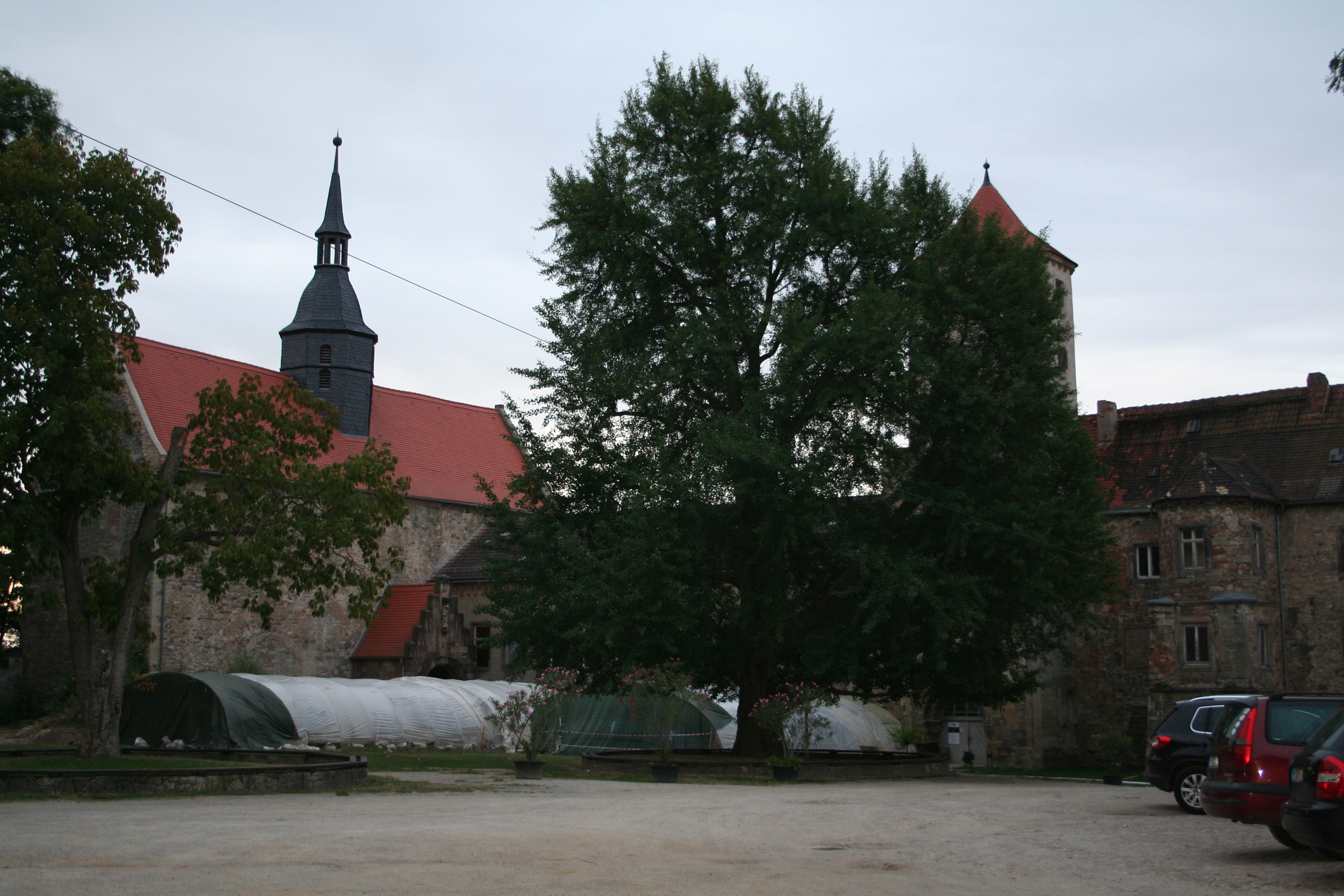 Goseck castle, Ginkgo tree